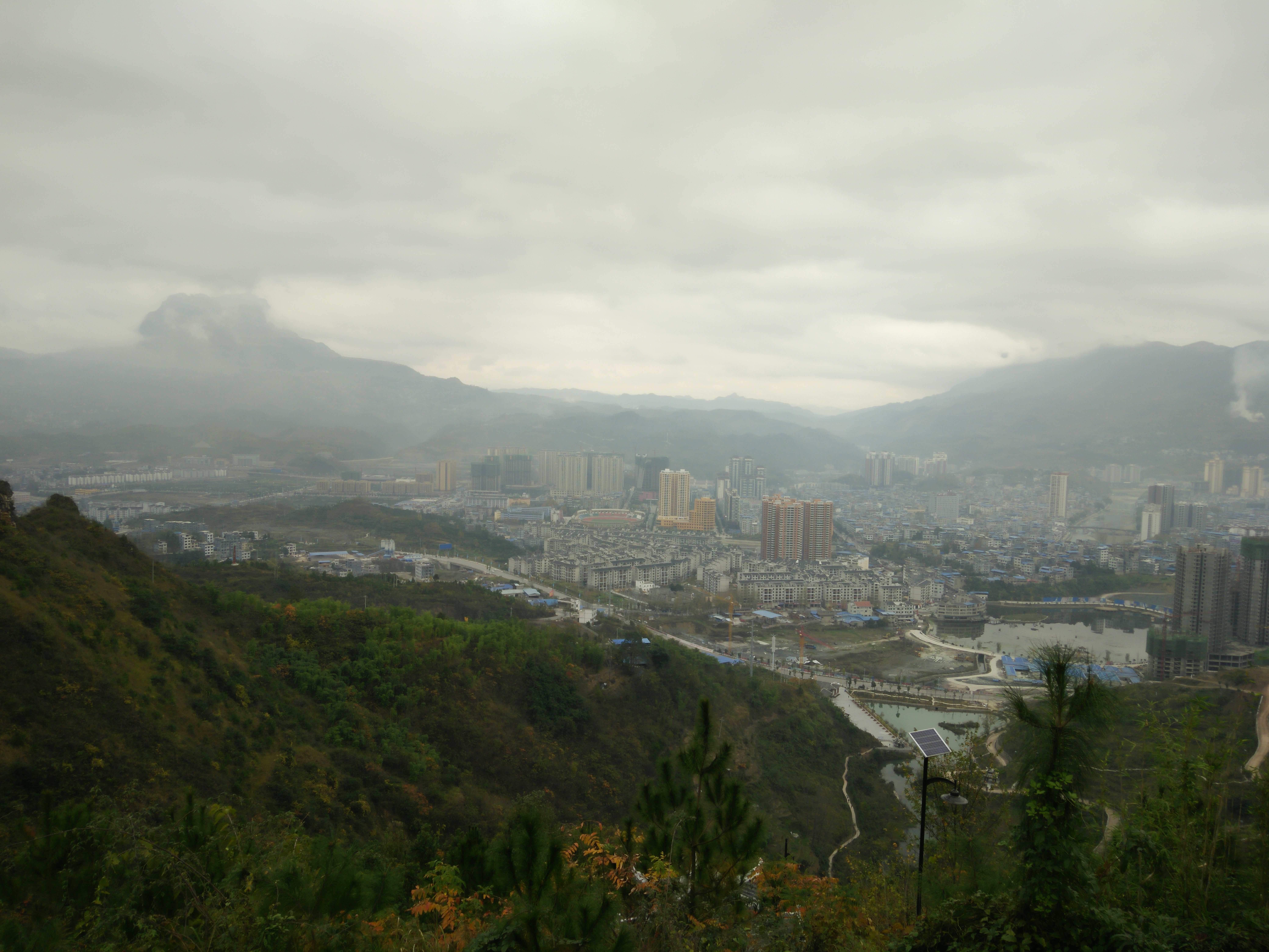 Skyline of Yinjiang Tujia and Miao Autonomous County urban